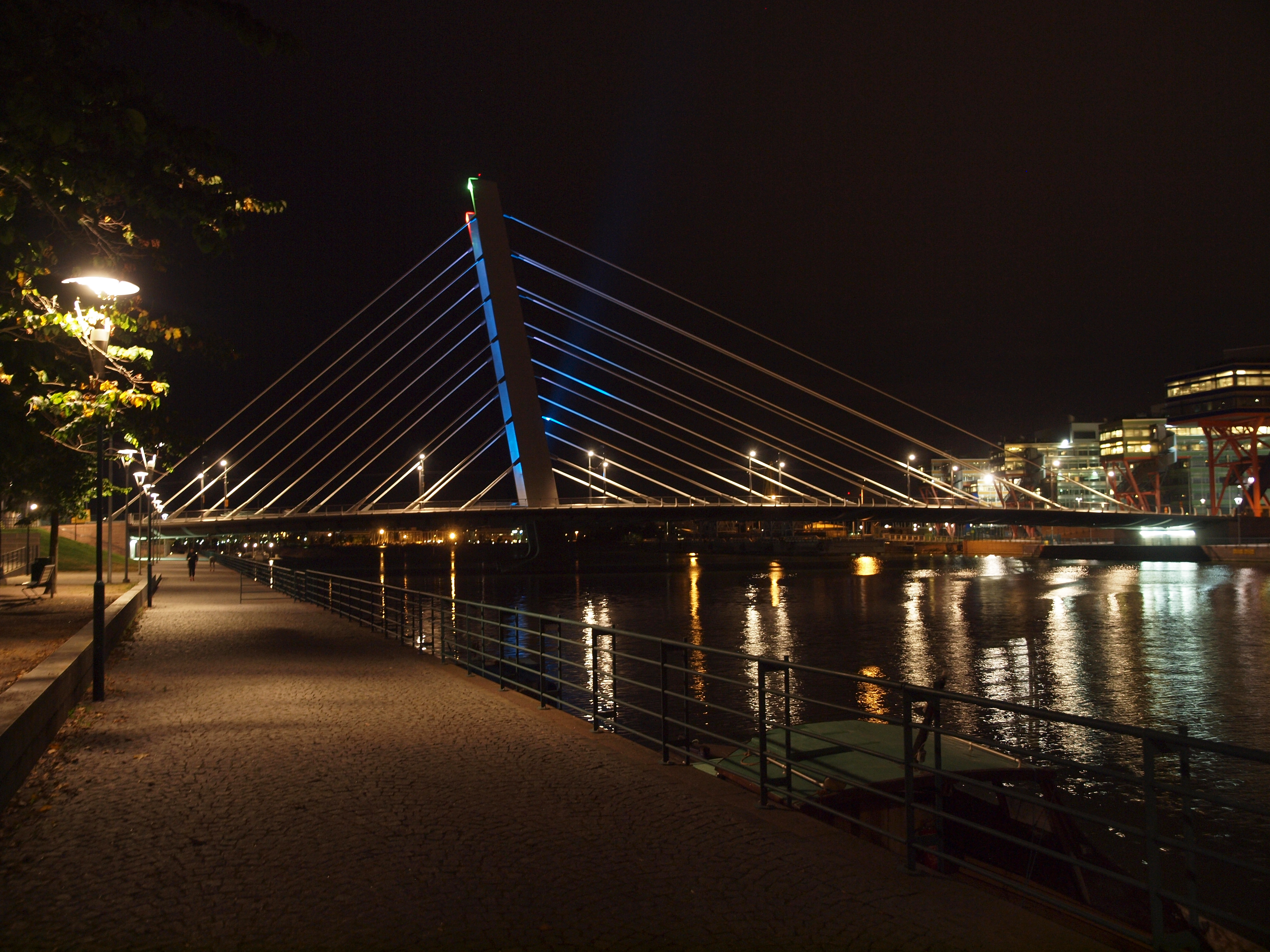 The Crusellinsilta (Swedish: Crusellsbron) bridge between Jätkäsaari and Ruoholahti in southern Helsinki, Uusimaa, Finland, seen late in the evening across the Ruoholahti canal. The dark sky shows off the bridge's famous decorative illumination.